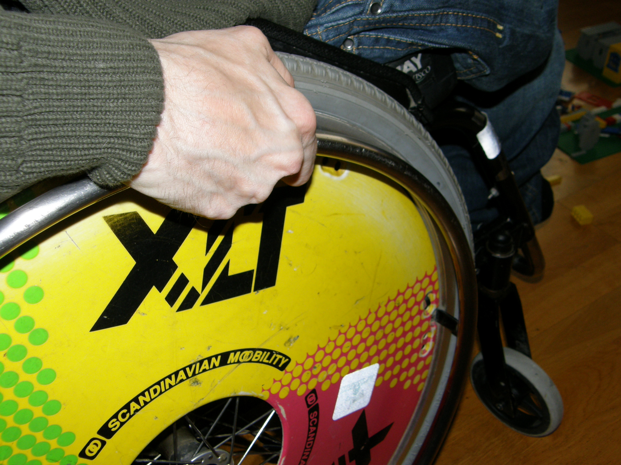 A close-up of a rear wheel of a wheelchair.